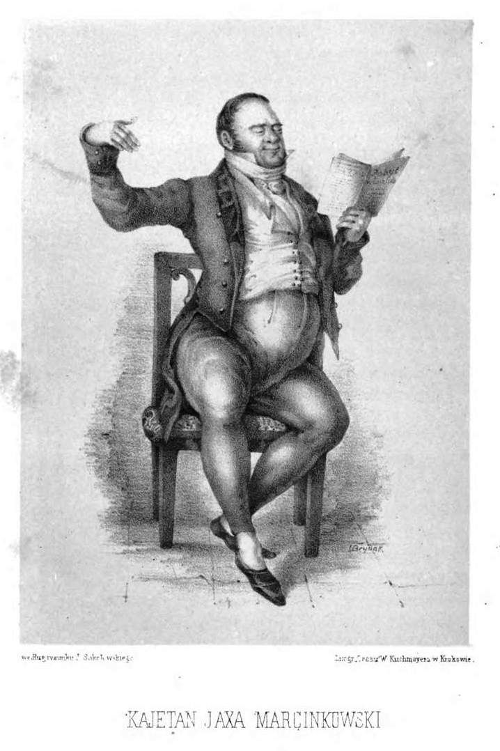 Kajetan Jaxa-Marcinkowski